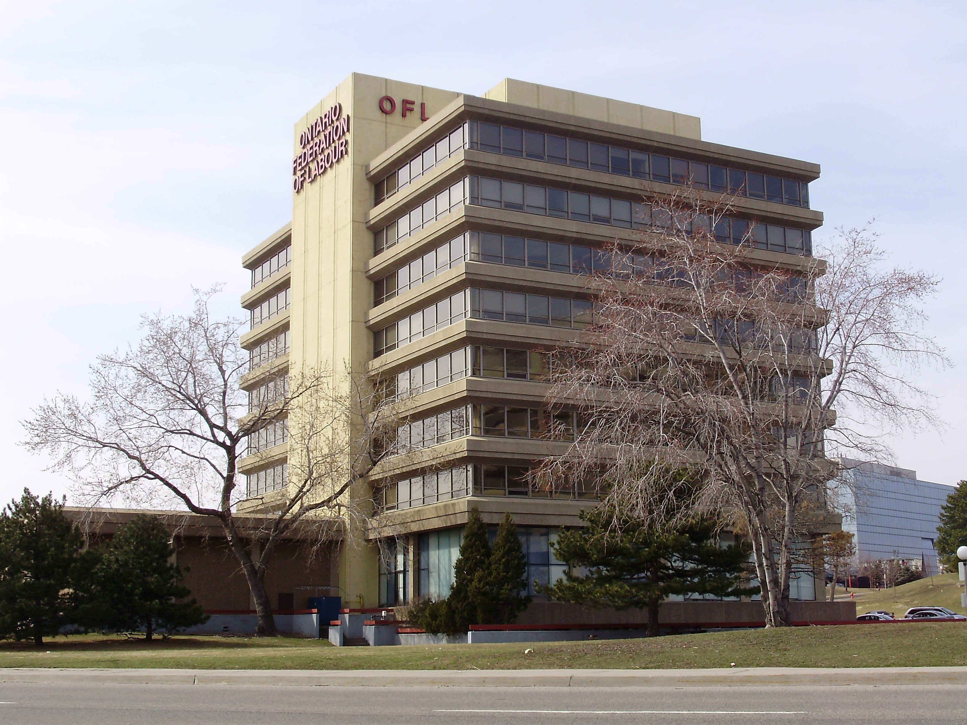 The Ontario Federation of Labour's offices, photographed from the south side of Eglinton Avenue East in Toronto, Ontario, Canada.